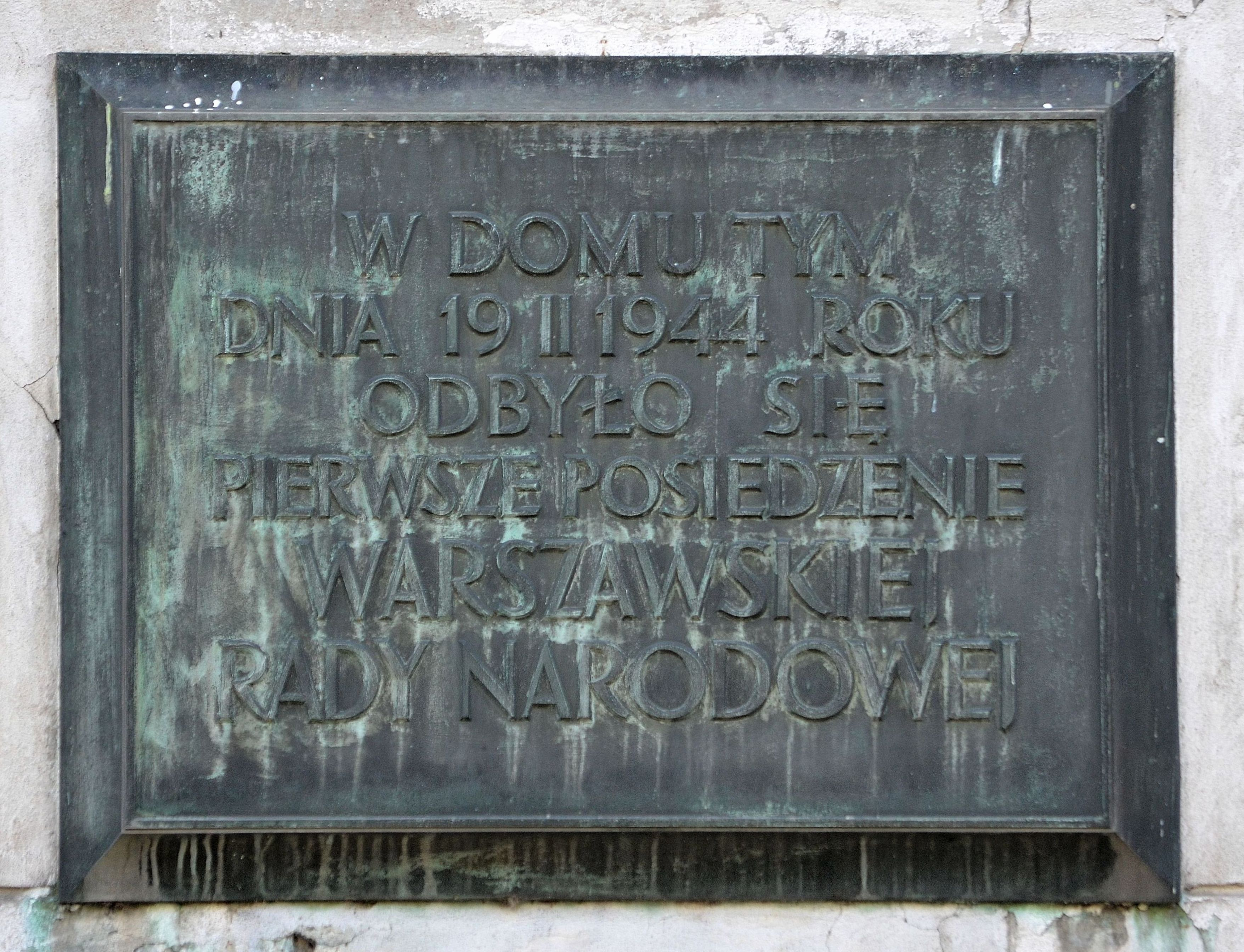 Commemorative plaque at 29 Długosza Street in Warsaw